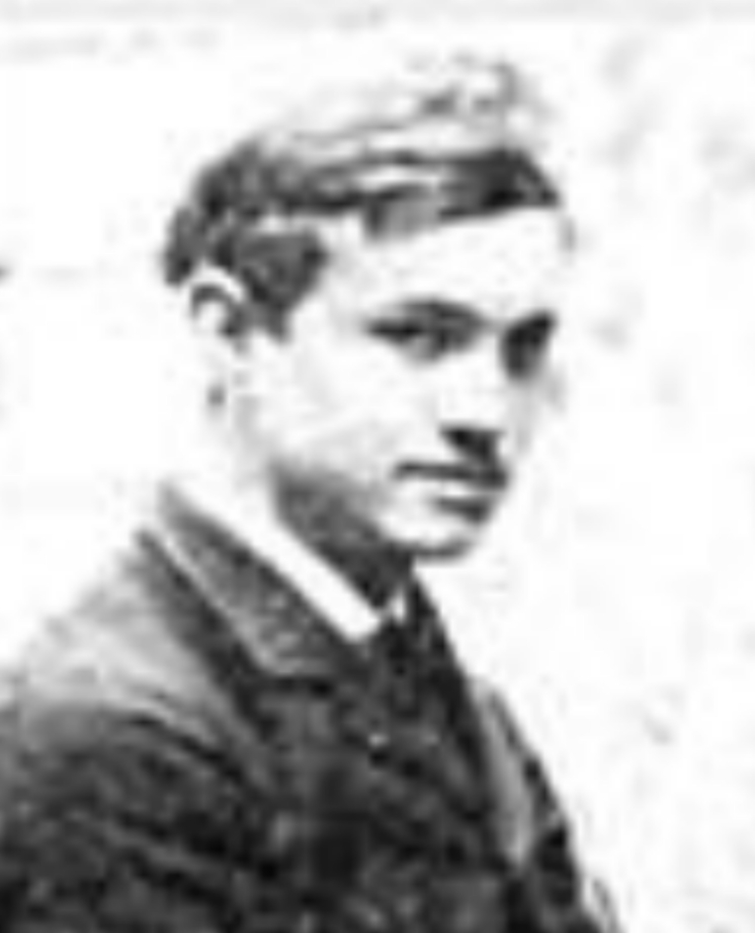 Gabriel Dupont (1878-1914), at the second Grand Prix de Rome 1901. Author of opéras La Cabrera (1903), La Glu (1910), La Farce du cuvier (1912) et Antar (1913).